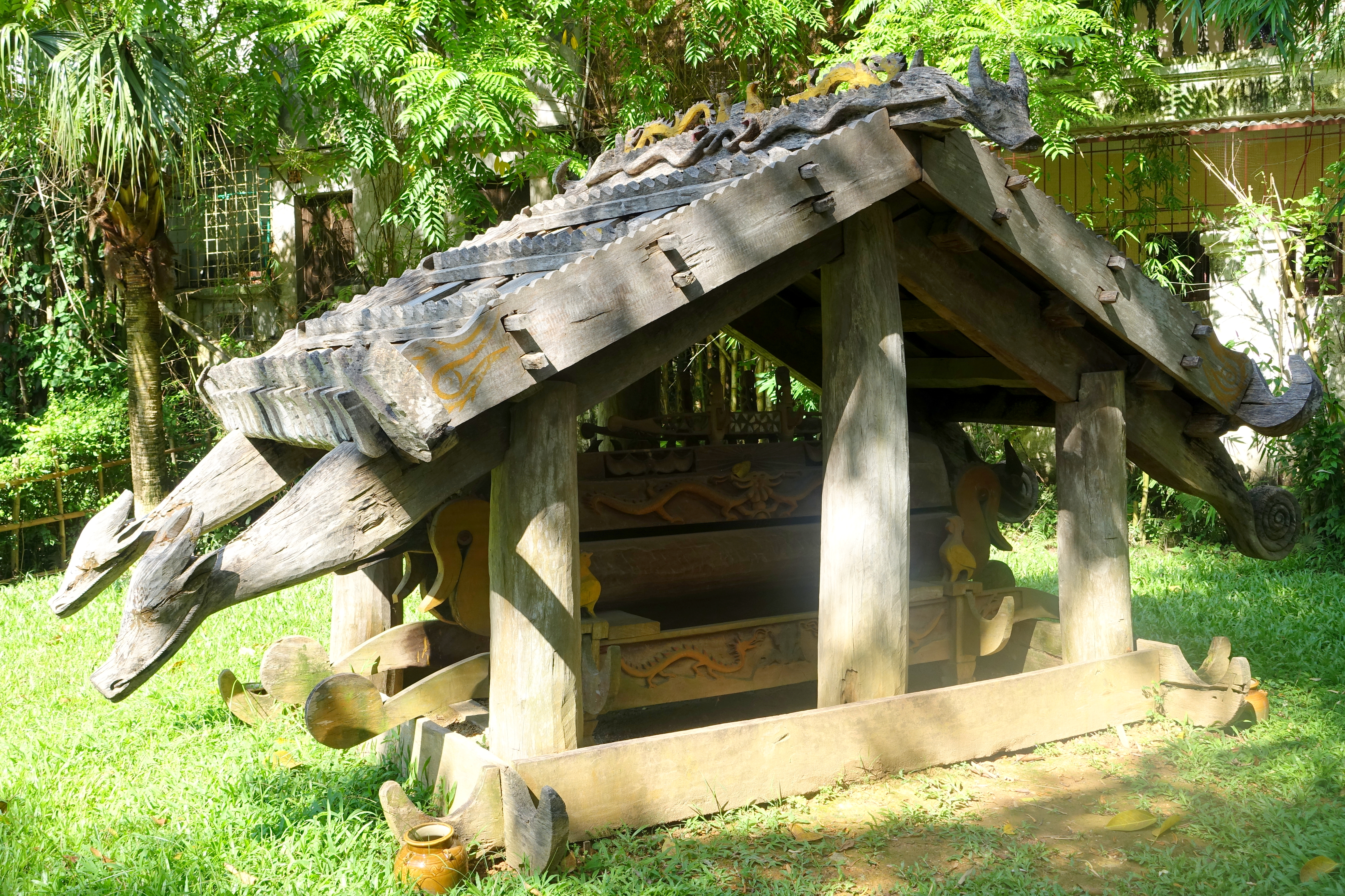 Exhibit at the Vietnam Museum of Ethnology - Hanoi, Vietnam. Photography was permitted at the museum without restriction.